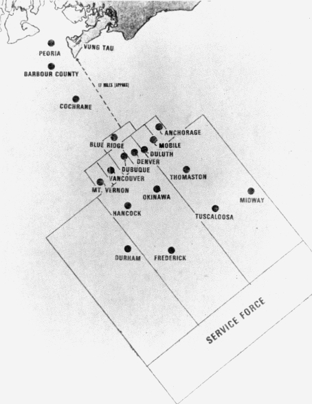 Map showing the disposition of U.S. Navy ships of Task Force 76 at the start of "operation Fequent Wind", in April 1975. The command ship USS Blue Ridge (LCC-19) was located approximately 28 km from Vung Tau, Vietnam, at 1500 hrs on 29 April 1975.